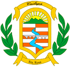 Coat of arms of this department of Guatemala Permission